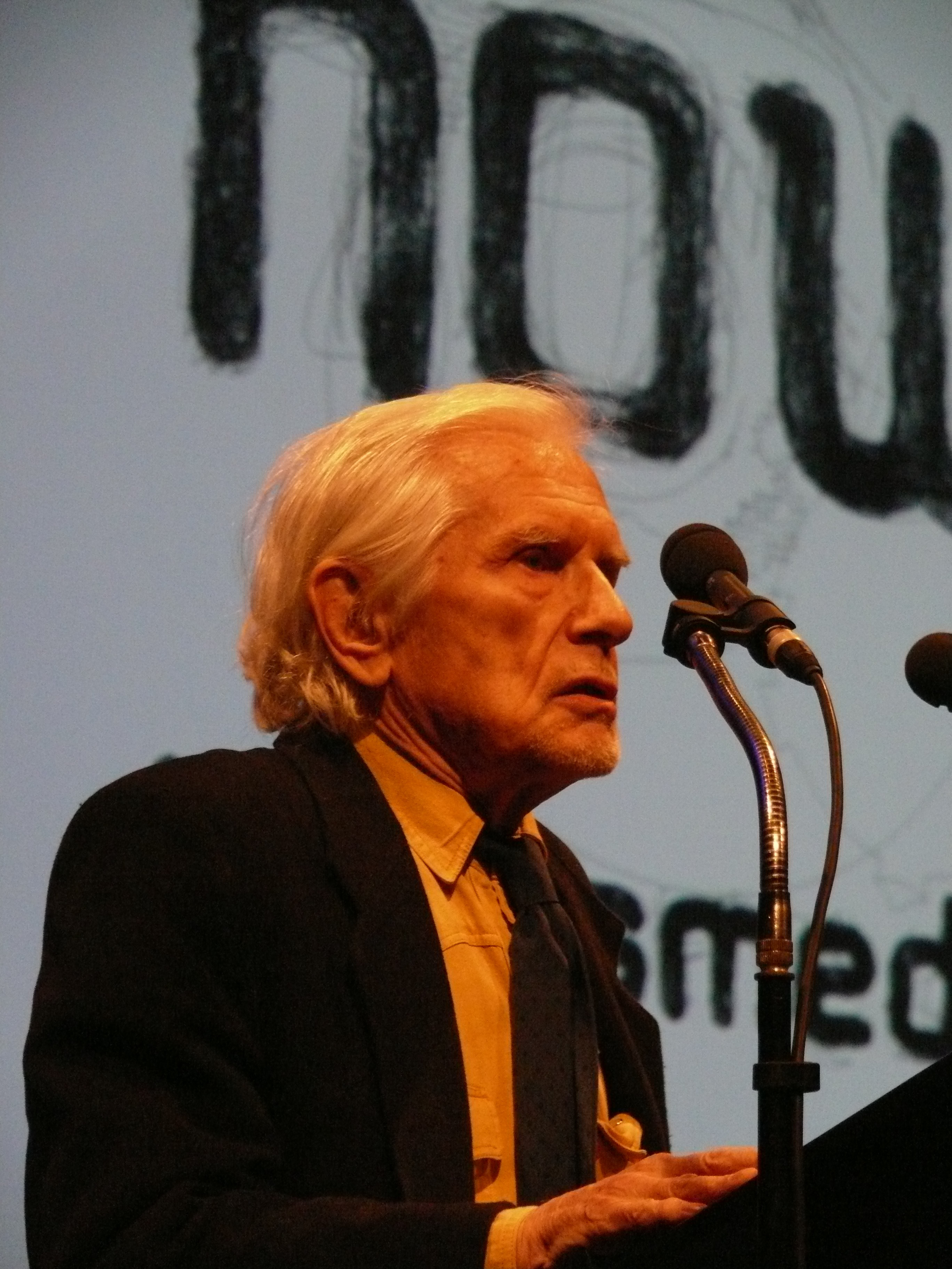 Herbert W. Franke talking at the opening of Tranmediale 2010.